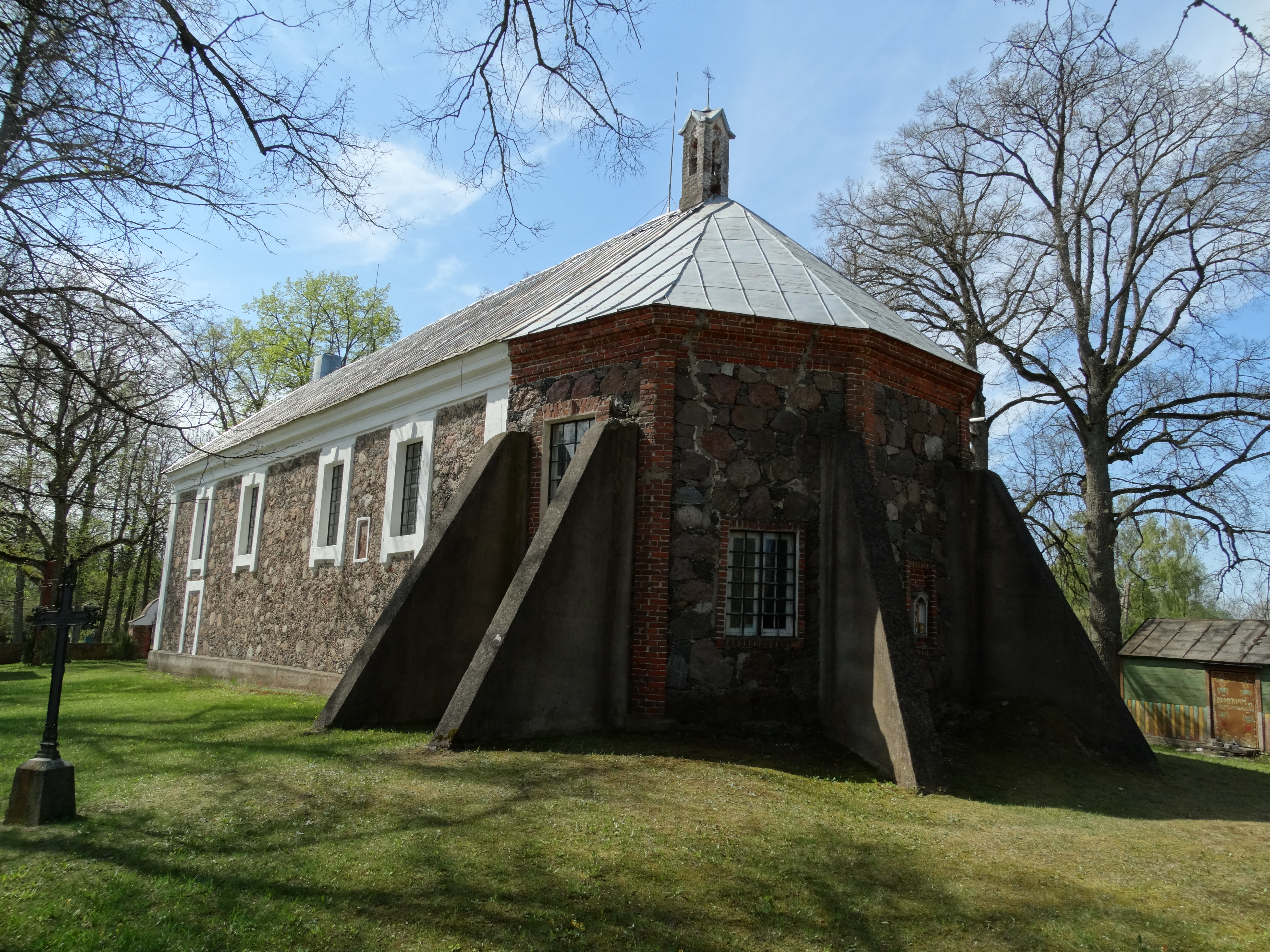 Dambava Church, Radviliškis District, Lithuania